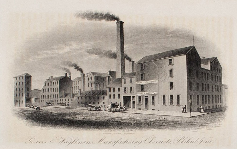 Steel engraving: "Powers & Weightman, Manufacturing Chemists, Philadelphia."